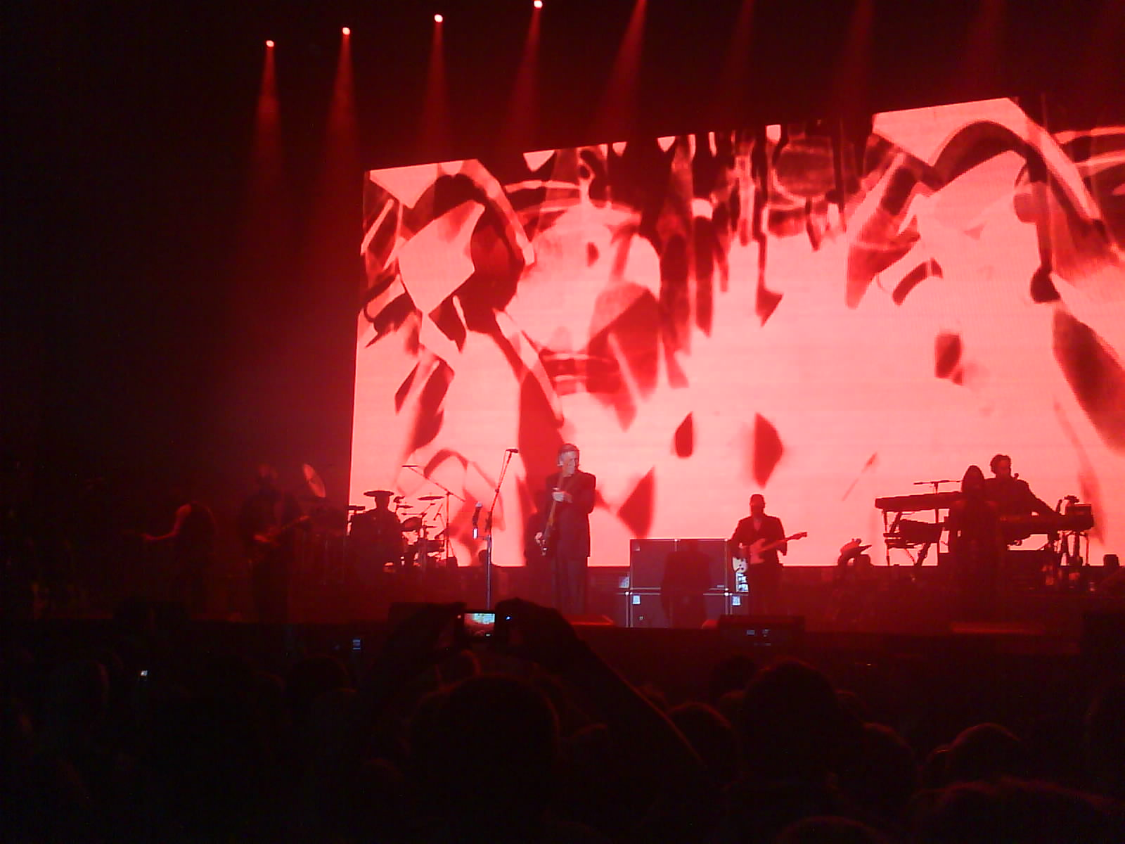 Roger Waters in Vestlandshallen in Bergen during the opening song "In the Flesh".